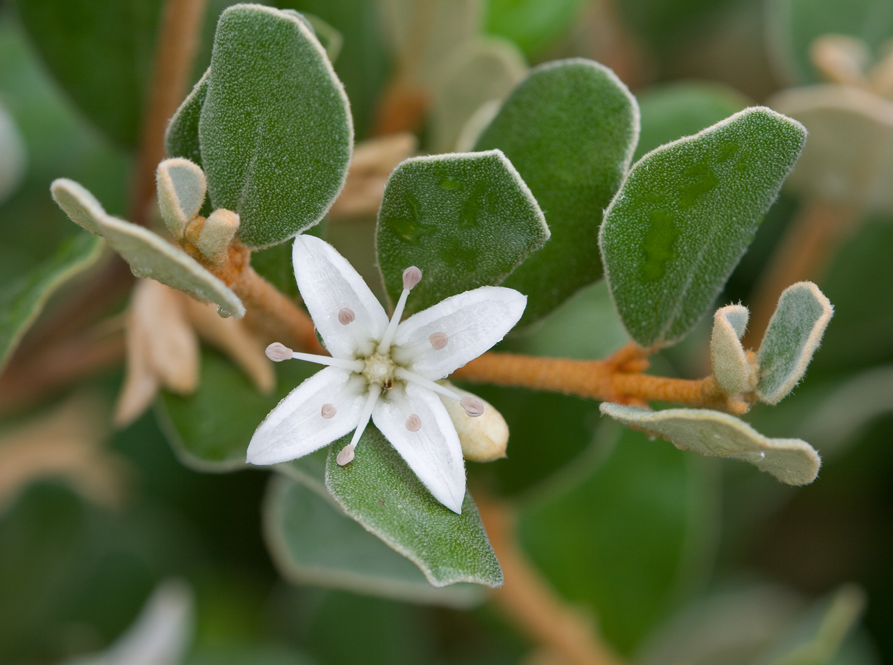 Correa alba, Royal Tasmanian Botanical Gardens, Tasmania, Australia Camera data Camera Canon EOS 400D Lens Tamron EF 180mm f3.5 1:1 Macro Focal length 180 mm Aperture f/8 Exposure time 1/20 s Sensivity ISO 100